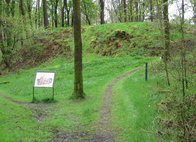 Cally Motte Cally Motte is all that remains of a twelfth century timber castle of an Anglo-Norman knight.